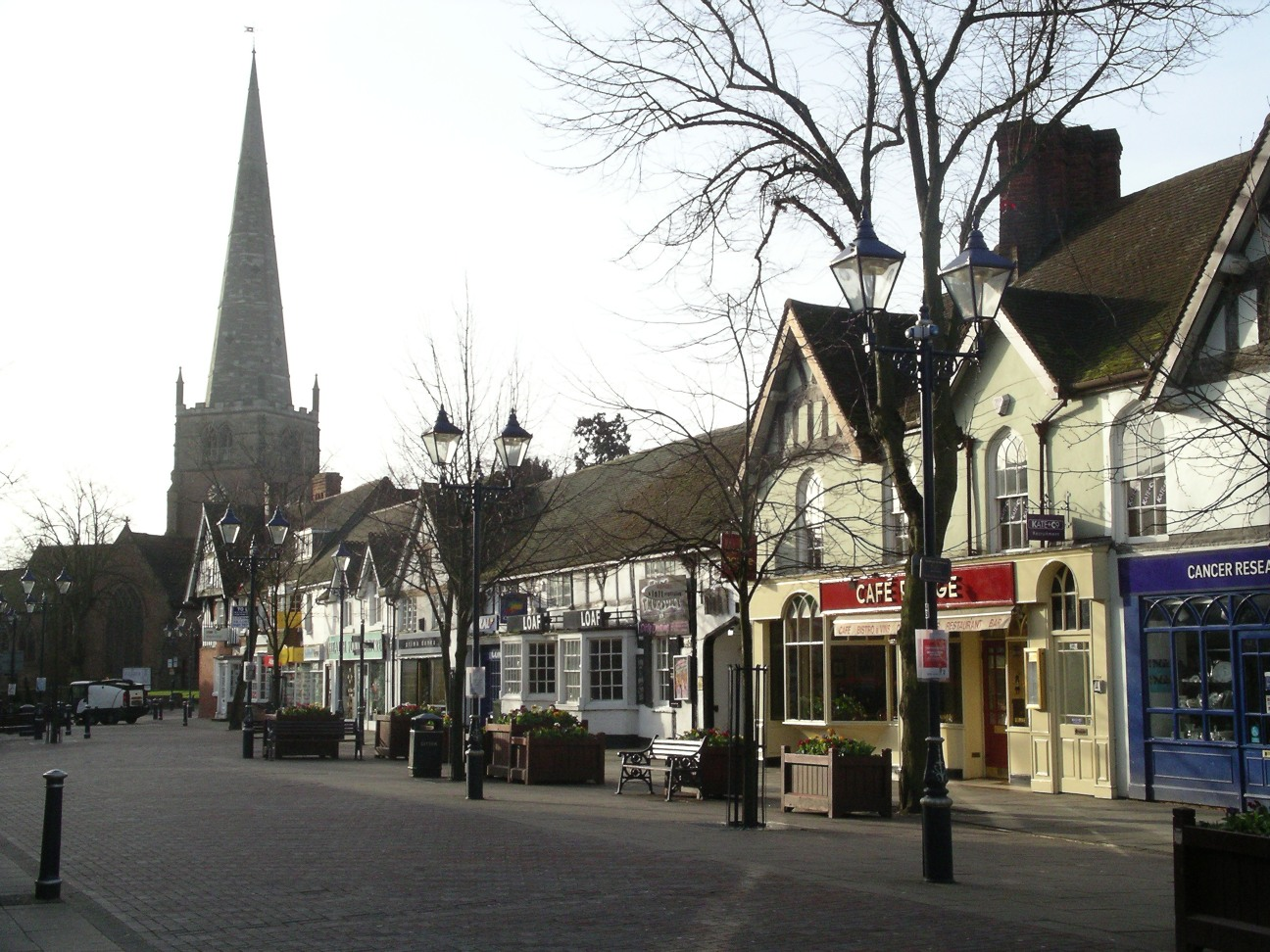 View along Solihull High Street towards St Alphege Church